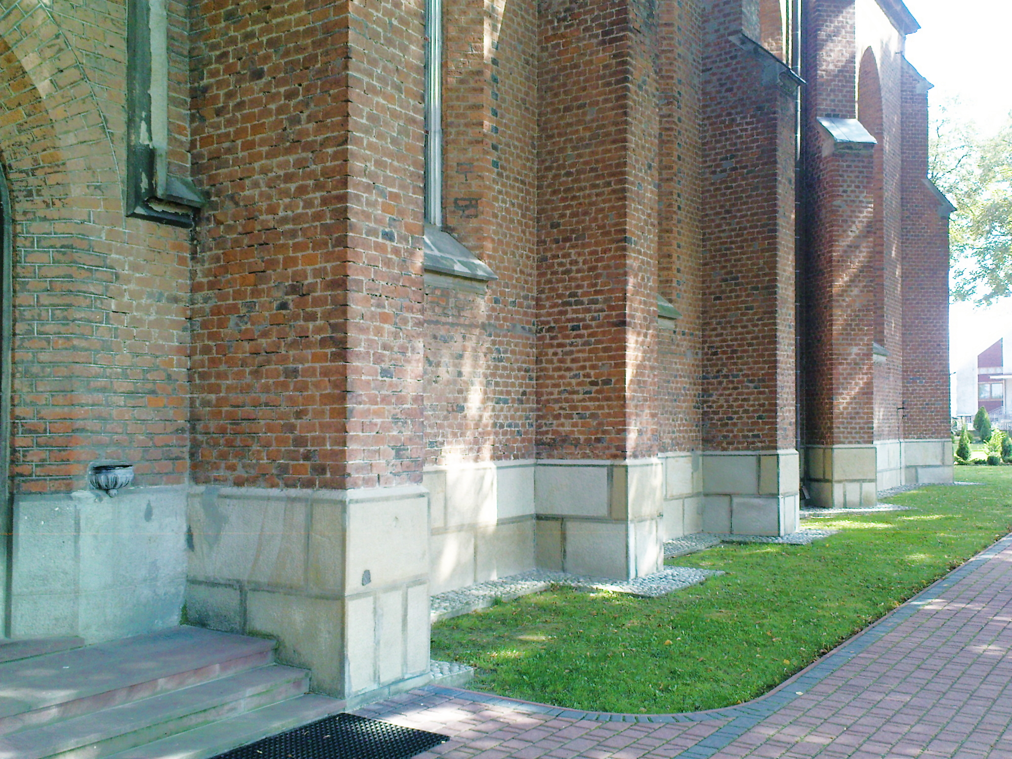 Parish Church of St. Martin the Bishop in Łużna